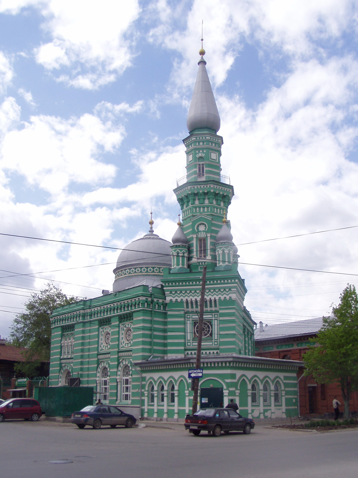 Cathedral mosque in Perm, Russia